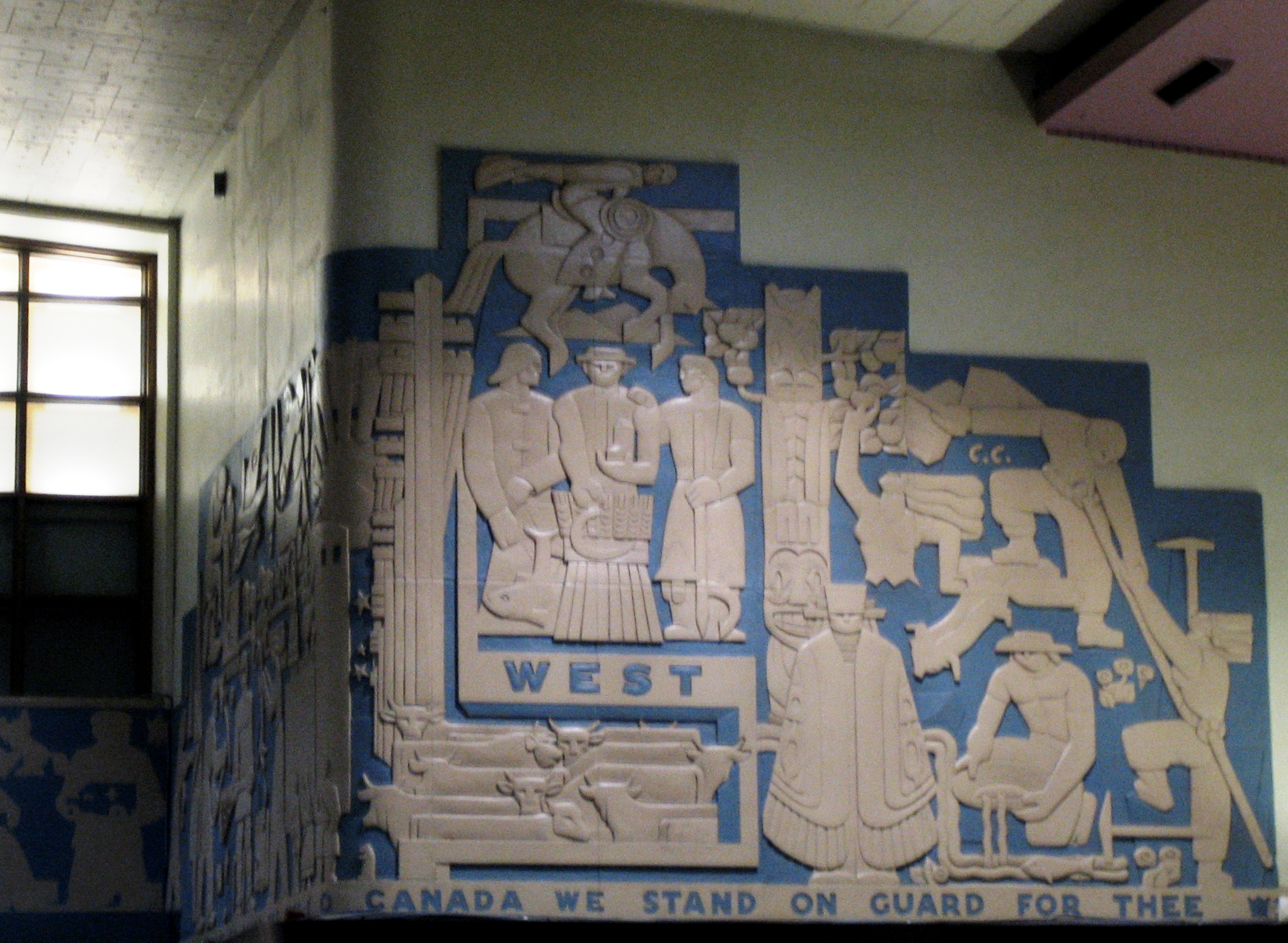 Central train station, west corner art, Montreal Photo by uploader